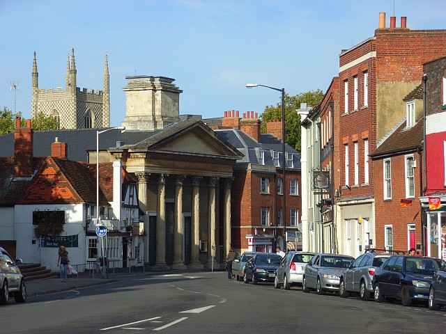 Castle Street in Reading, Berkshire, England. The colonated building is St Mary's Church, Castle Street, whilst the tower behind it is that of the its namesake, the Minster Church of St Mary the Virgin. The white painted pub is The Sun. For more information see the Wikipedia articles St Mary's Church, Castle Street and Reading Minster.